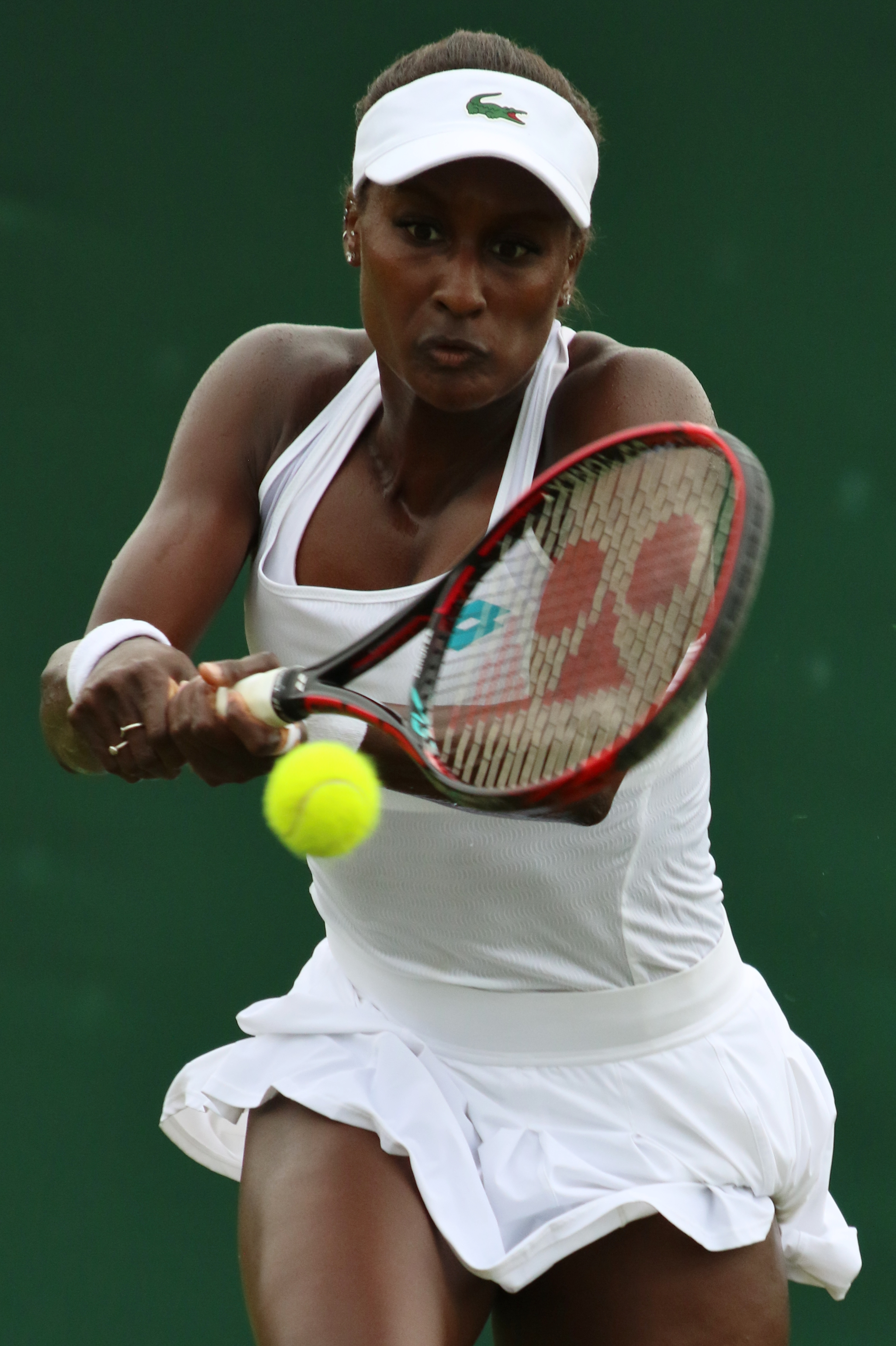 2019 Wimbledon Qualifying Tournament.